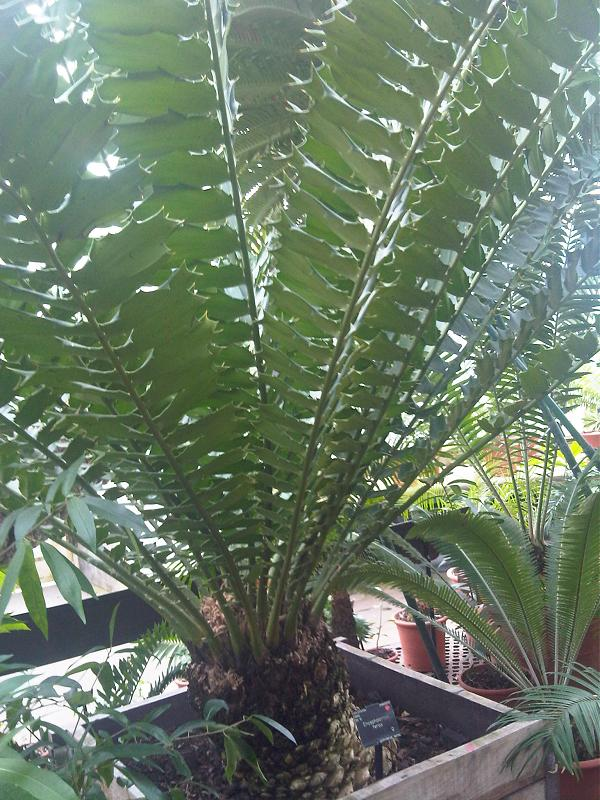 Encephalartos ferox in Kew Gardens, England.